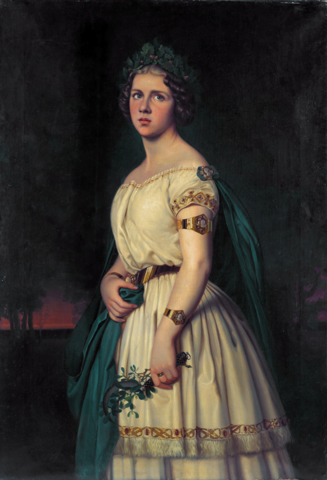 Jenny Lind as Norma oil on canvas 139 x 95 cm